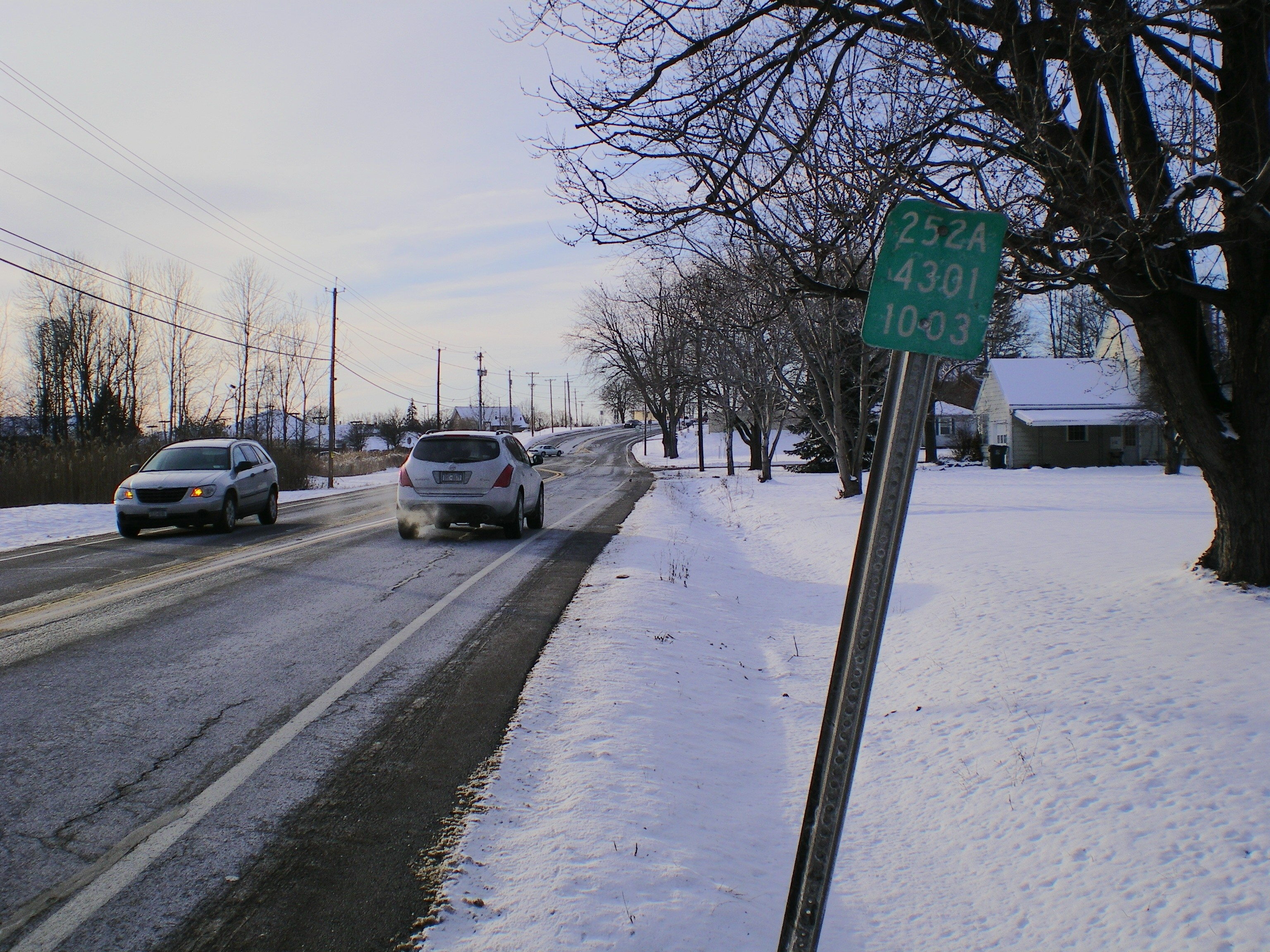 Reference marker on New York State Route 252A in Chili, New York. At the time of this photo, reference markers were the only signs left that indicated that Paul Road is NY 252A.